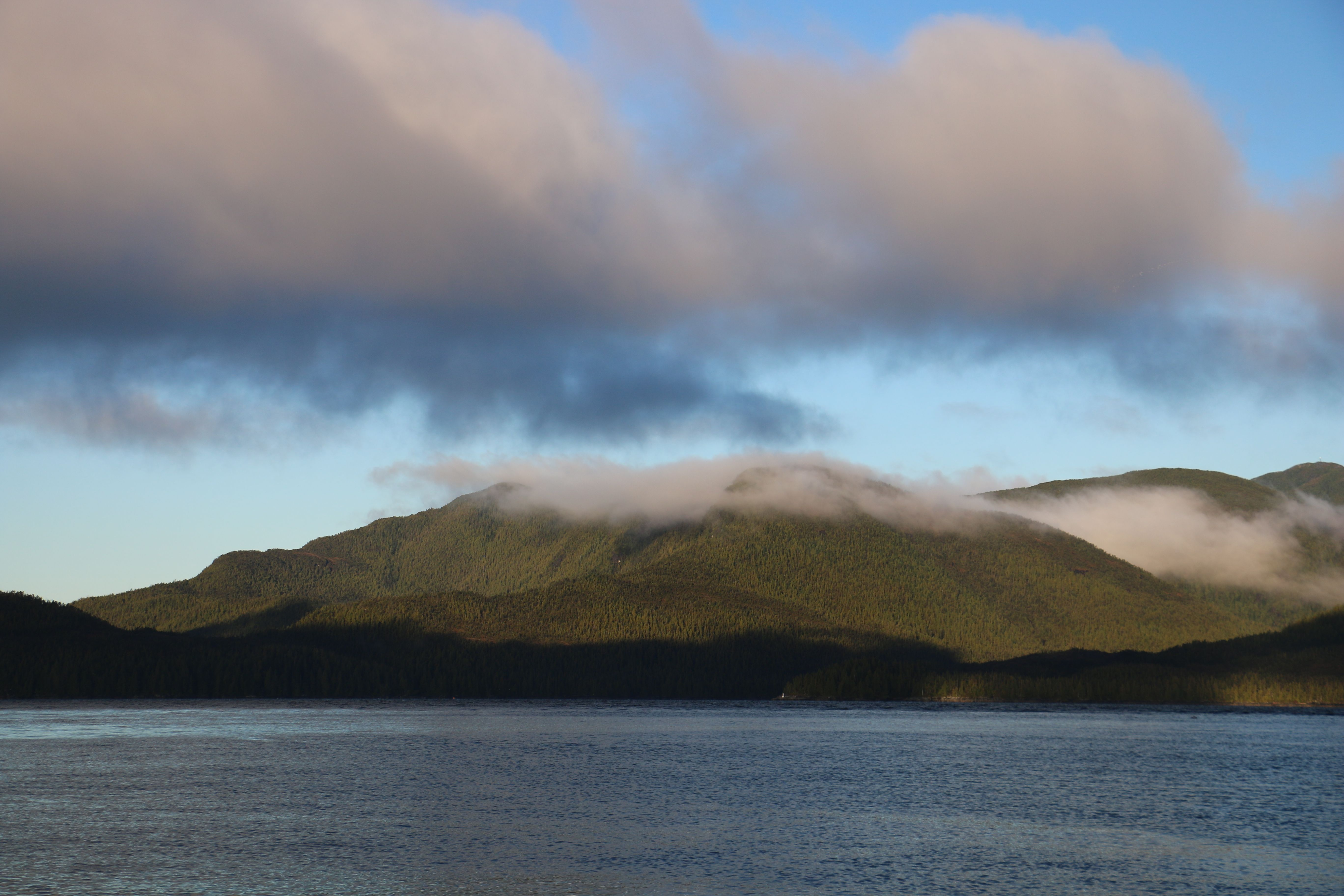 Swindle Island, on British Columbia's Central Coast. The island is a western boundary of the Inside Passage nautical route.